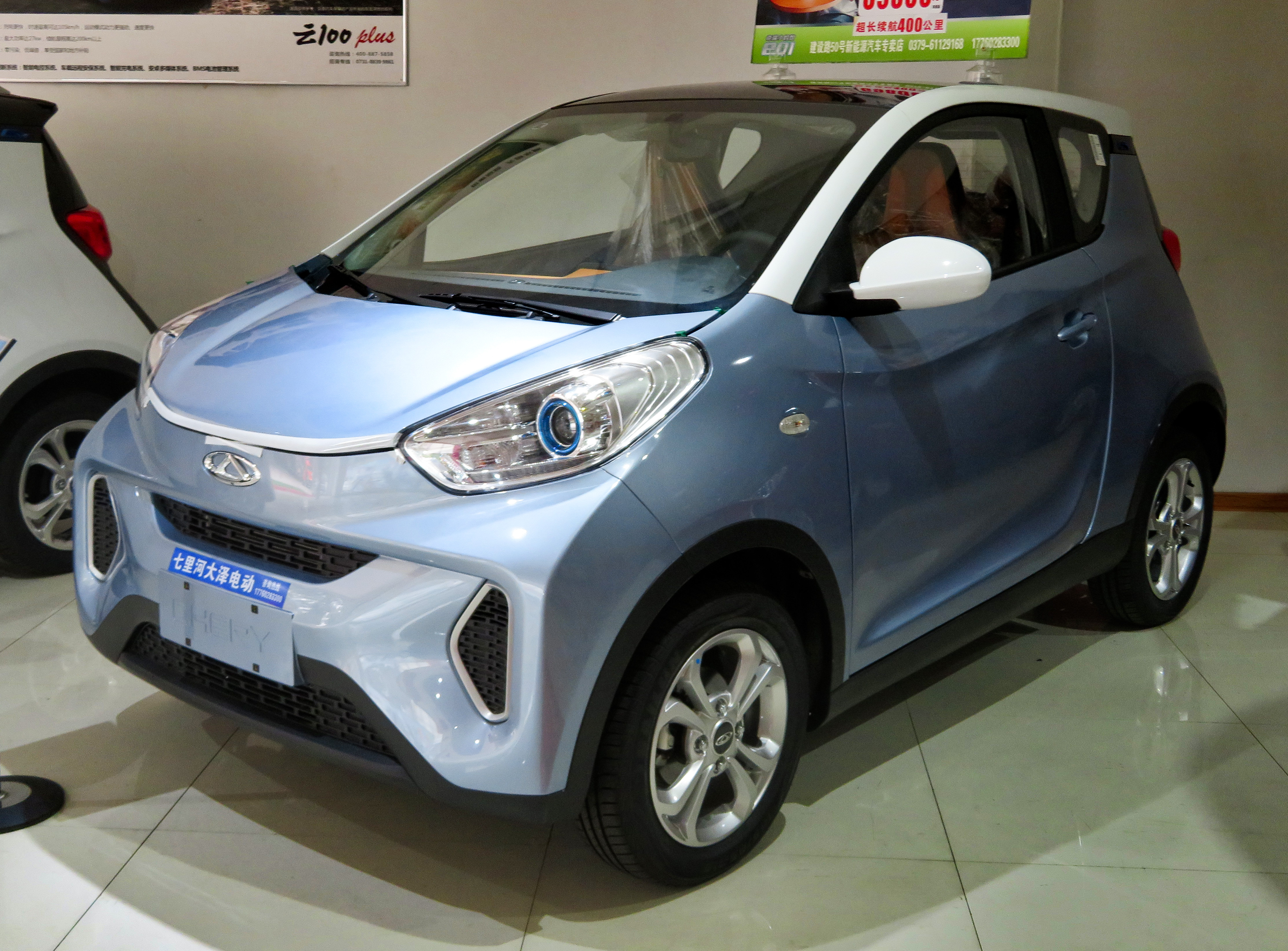 A 2018 Chery eQ1 photographed in Xigong District, Luoyang, Henan province, China